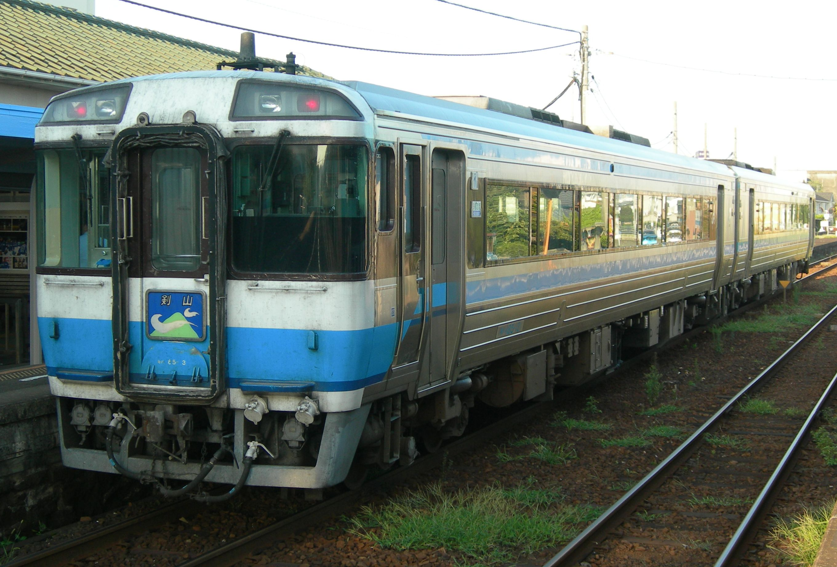 A JR Shikoku 2-car KiHa 185 series DMU on a Tsurugisan limited express service at Kuramoto Station